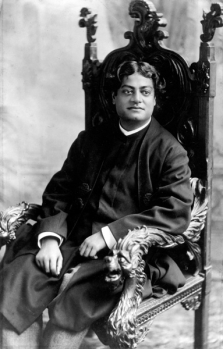 This photo was taken in year 1900 when Swami Vivekananda was in San Francisco, California